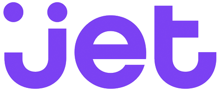 Logo of , a company of